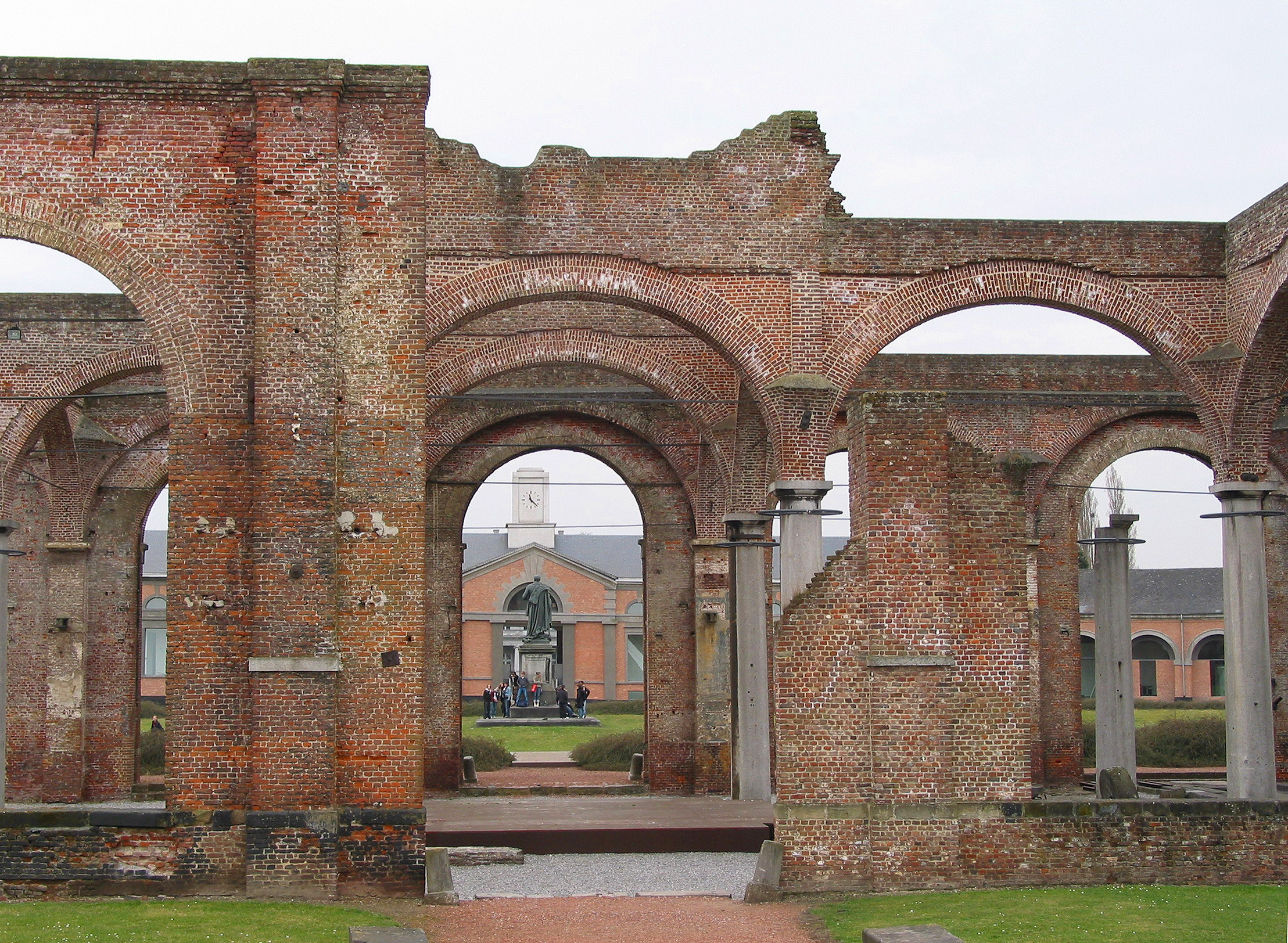 Hornu (Belgium), workshops ruins and oval courtyard of the former industrial complex called "Grand-Hornu" built by Henri De Gorge between 1810 and 1830 according to plans by architect Bruno Renard.